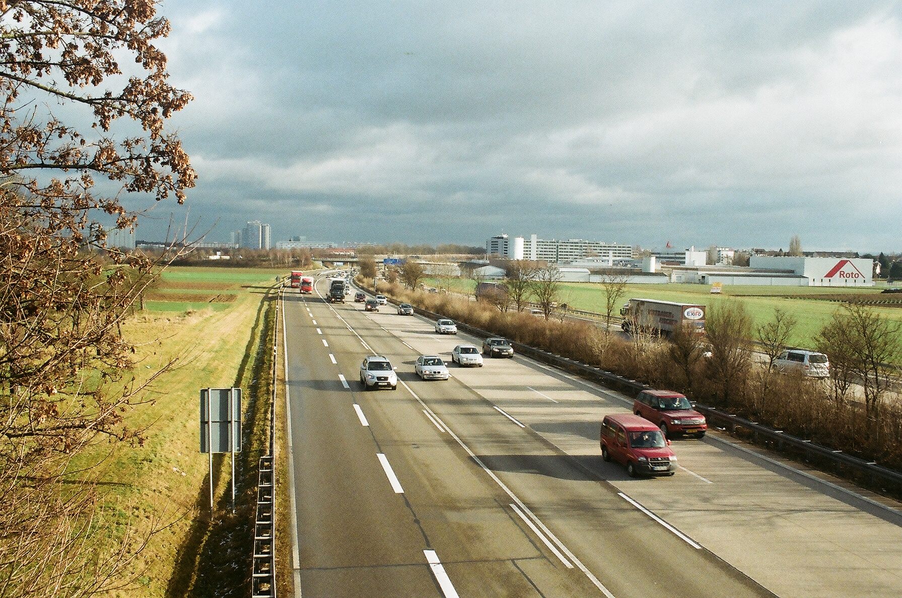 Autobahn south of Stuttgart Fildern